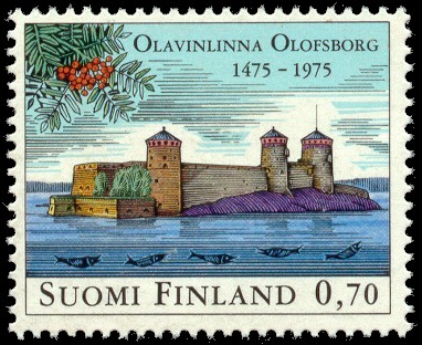 Postage stamp depicting the Finnish Olavinlinna castle.